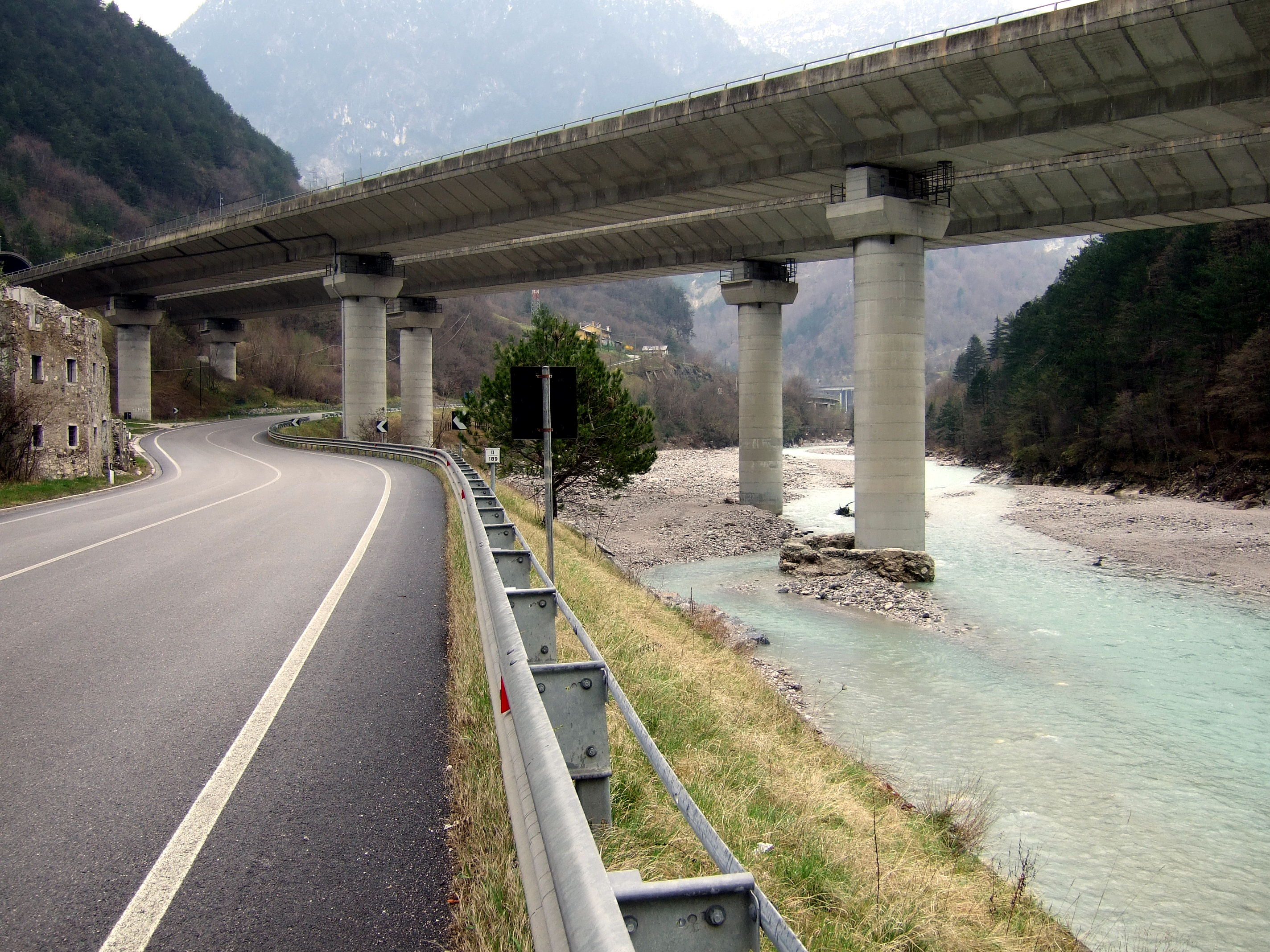 Fella-valley with motorway and national highway in the community of Dogna, Friuli-Venezia Giulia, Italy